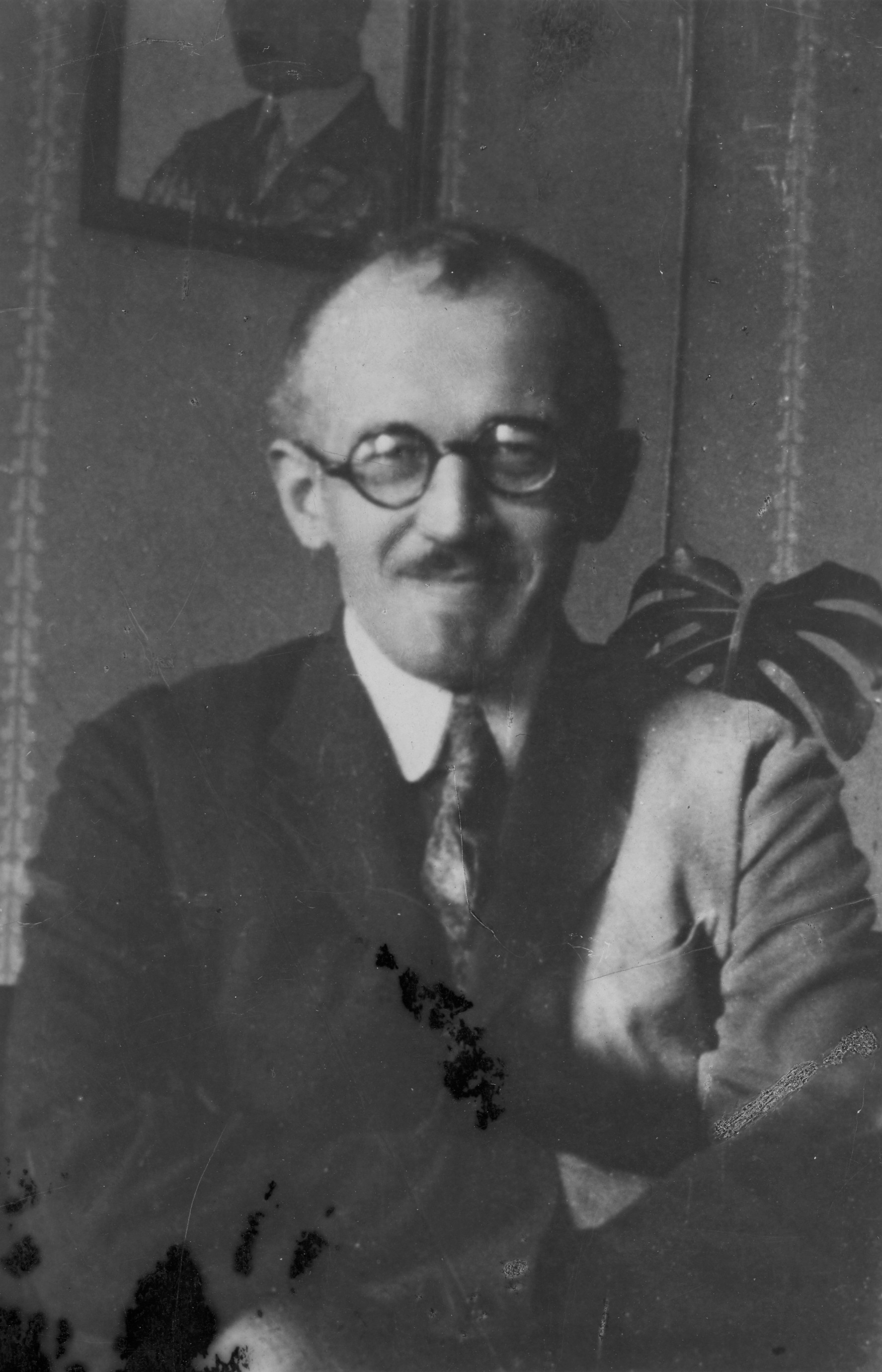 Kazimierz Vetulani ,Polish scientist (engineer), university professor at the Lviv Polytechnic. He was murdered by German Gestapo in the Massacre of Lviv professors 4.07.1941 in Lvov.